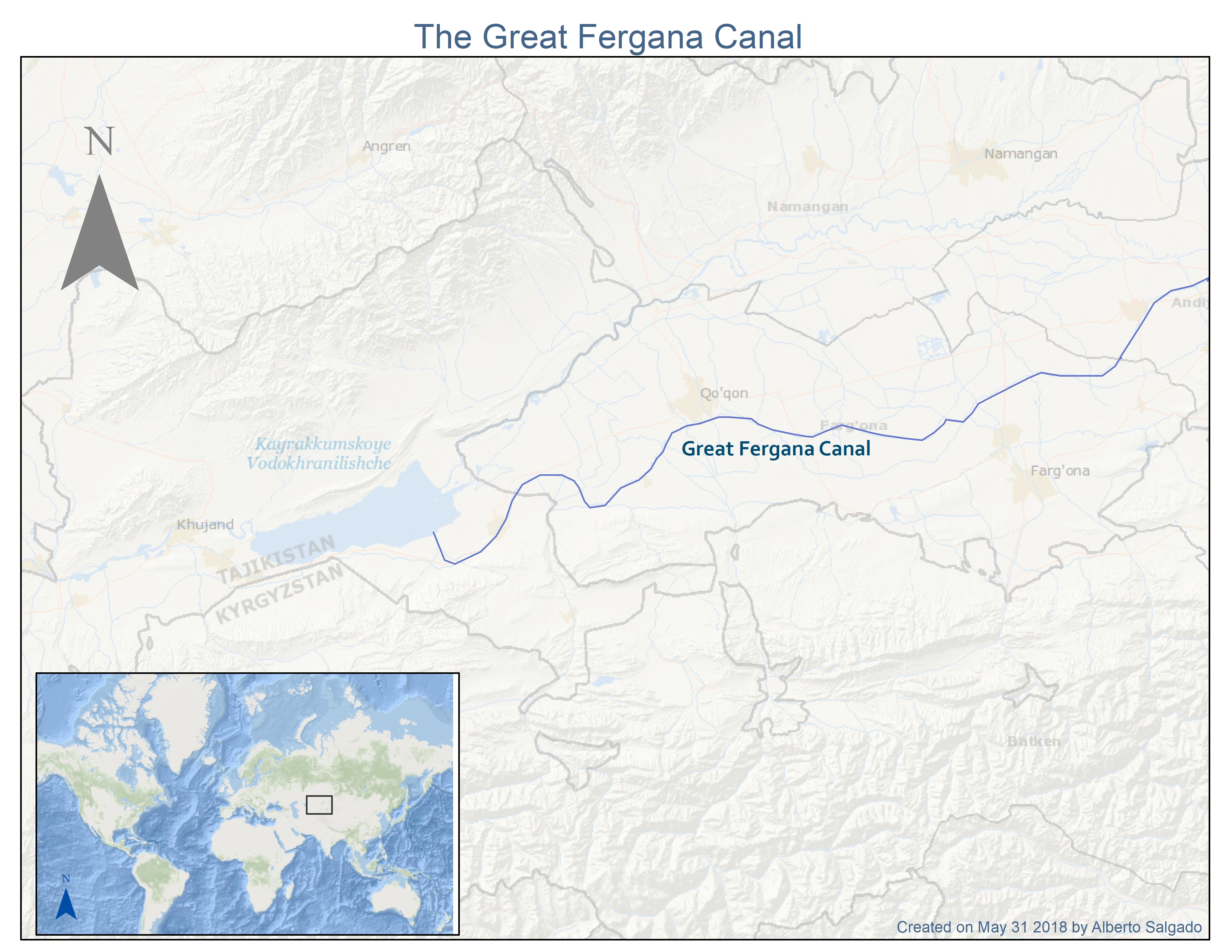 depiction of Fergana canal